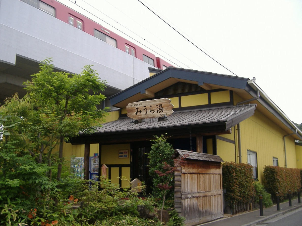 Sento Miurayu(Yokohama,Japan)